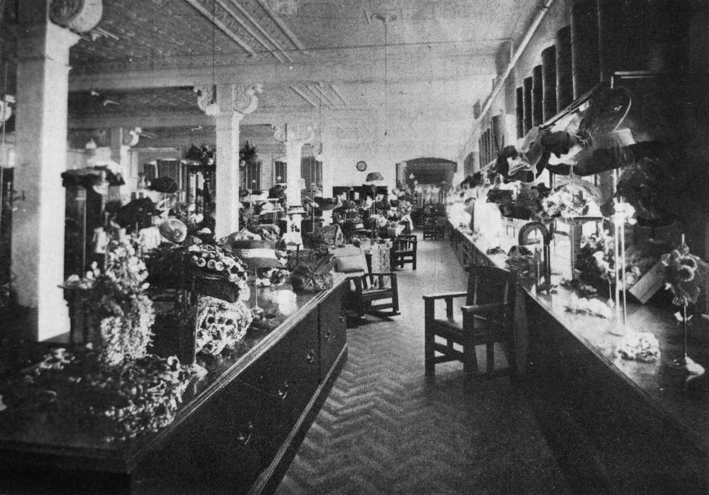 Creator: Unidentified Location: Brisbane, Queensland Description: The millenary department of Finney Isles, hats are displayed on stands arranged on wooden cabinets, in rows the full length of the floor. This store was an early development of the modern department store. The ceilings appear to be pressed metal and rows of ornate pillars support the ceiling. View this image at the State Library of Queensland: Information about State Library of Queensland’s collection